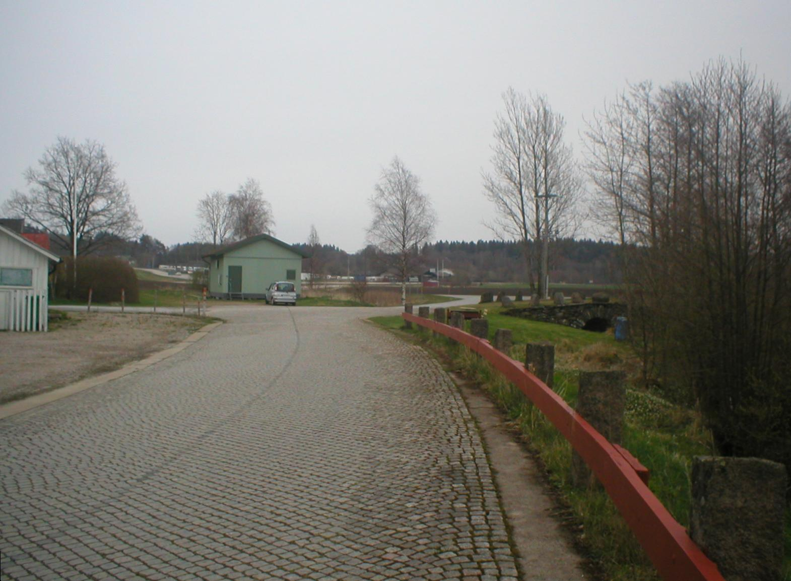 Photo of abandoned and renovated 1930s road, Åsen, Sweden